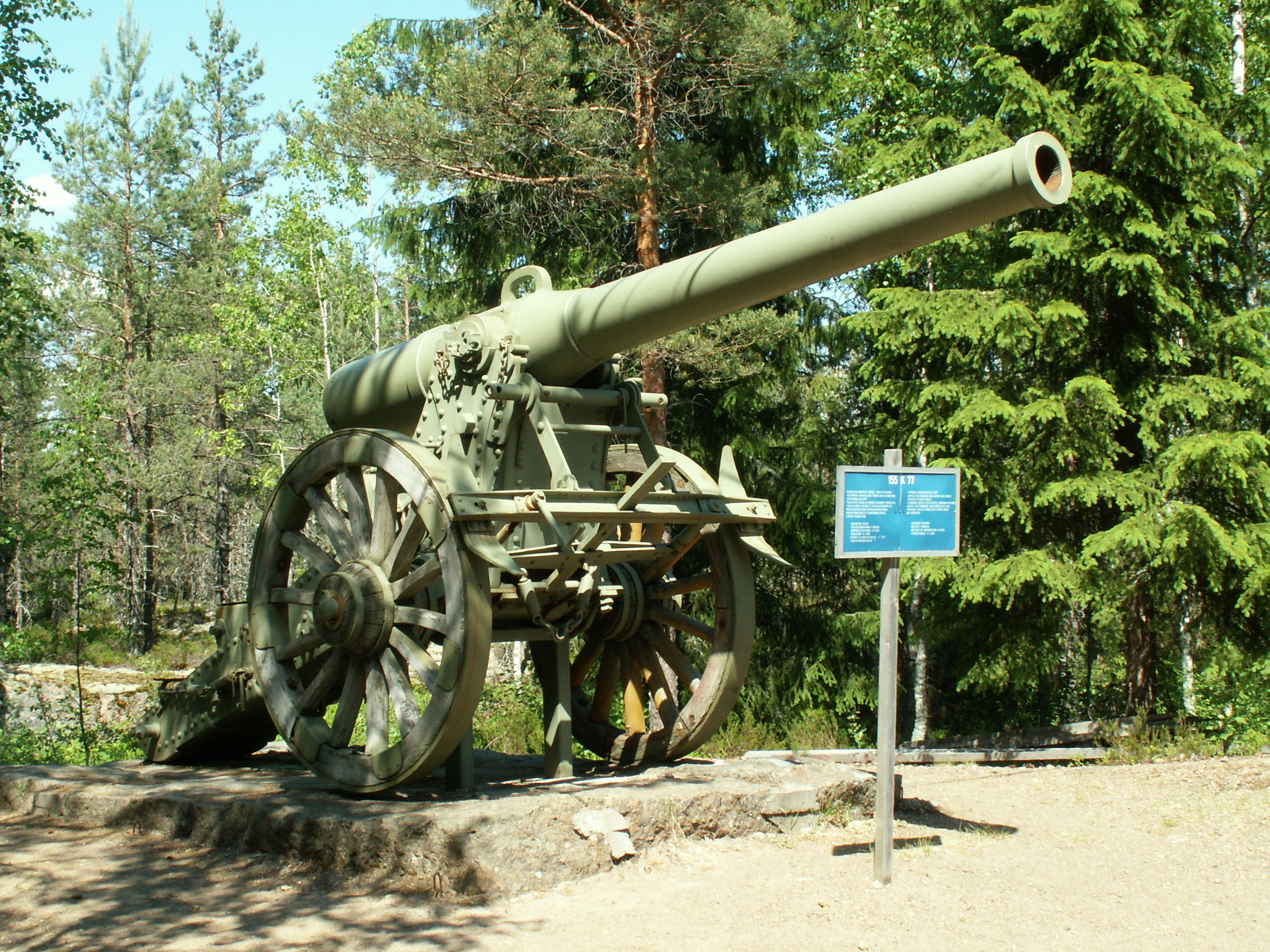 A French cannon model 1877 at Salpa Line museum in Miehikkälä, Finland. One of 48 cannons brought to Finland in 1940 and used in the Continuation War. Finnish designation was "155 K 77". Calibre 155 mm, weight 5,700 kg, range 12,3 km.